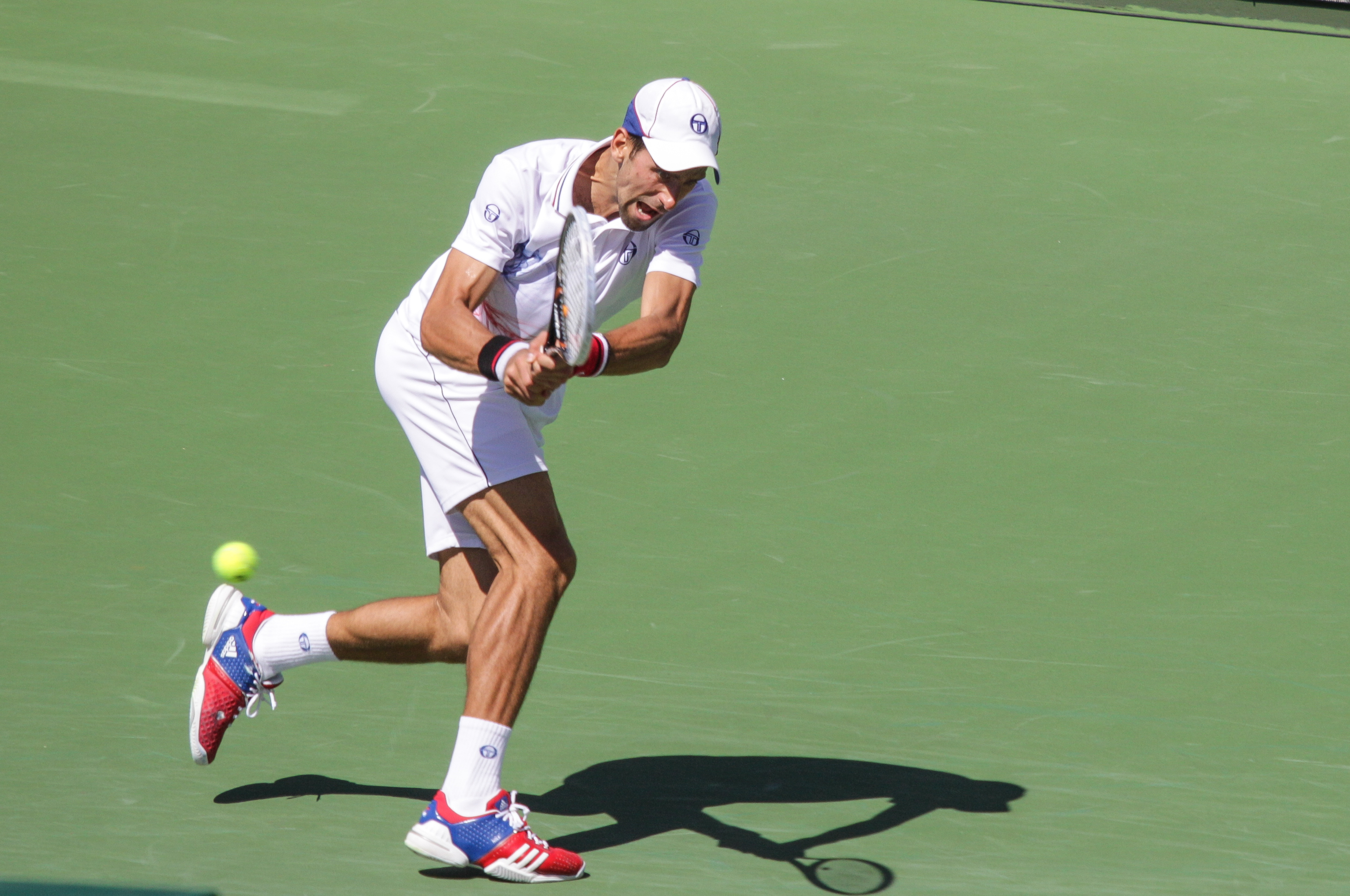 Novak returning a serve at the BNP Paribas 2012 Open.